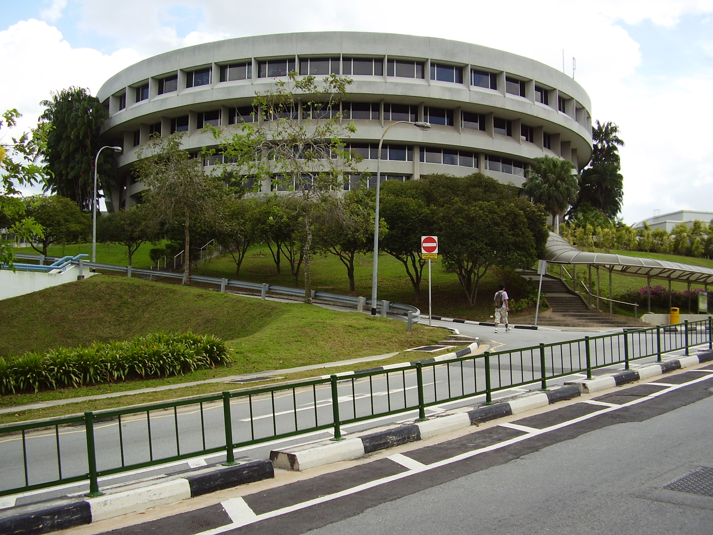 North Academic Complex, aka North Spine, of Nanyang Technological University, Singapore.